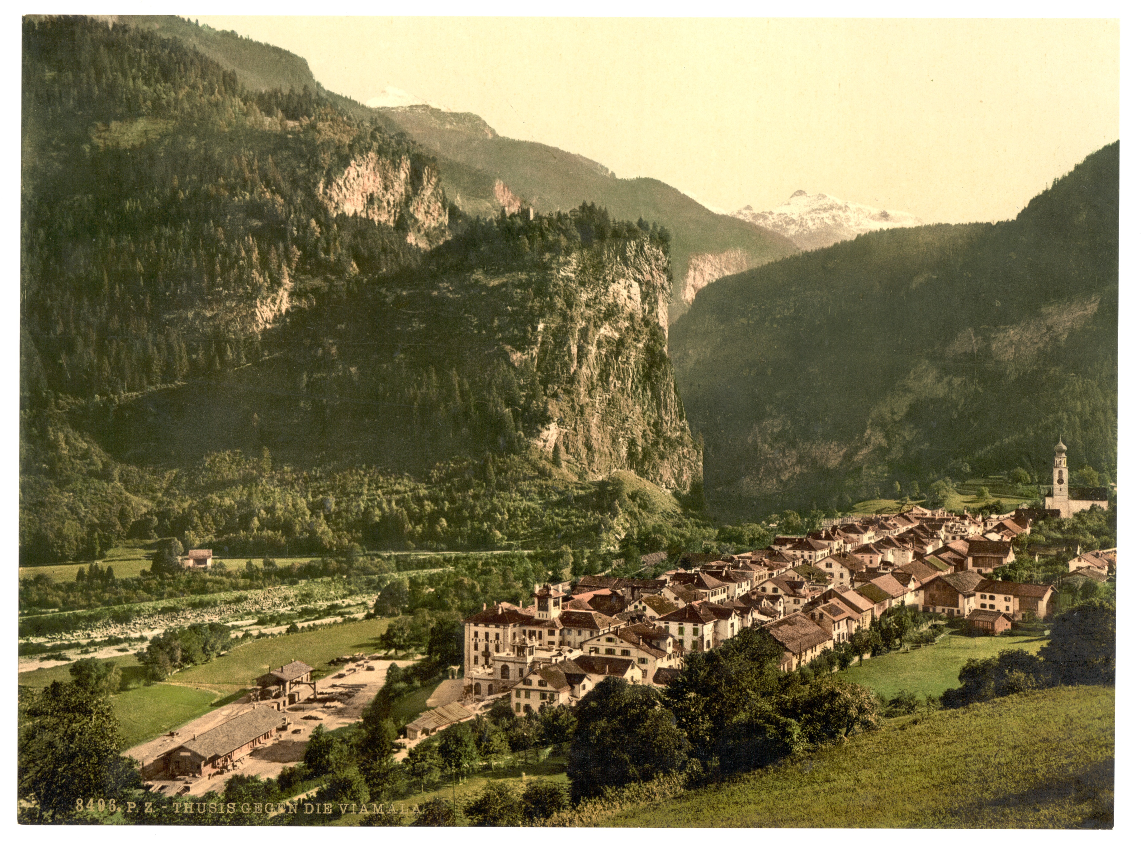 Forms part of: Views of Switzerland in the Photochrom print collection.; Title from the Detroit Publishing Co., Catalogue J-foreign section, Detroit, Mich. : Detroit Publishing Company, 1905.; Print no. "8496".